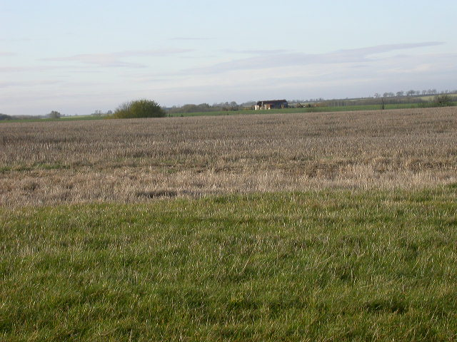 Field of stubble and farm building. A view to the west.